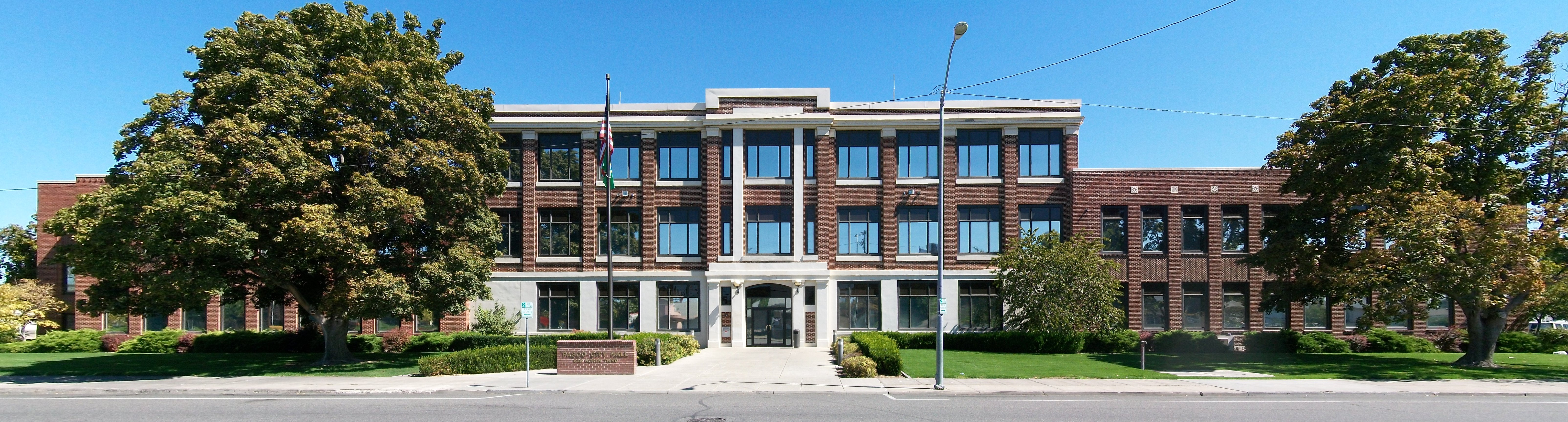 City hall in Pasco, Washington. Panorama created using File:City Hall in Pasco, Washington 1.jpg, File:City Hall in Pasco, Washington 2.jpg, and File:City Hall in Pasco, Washington 3.jpg.